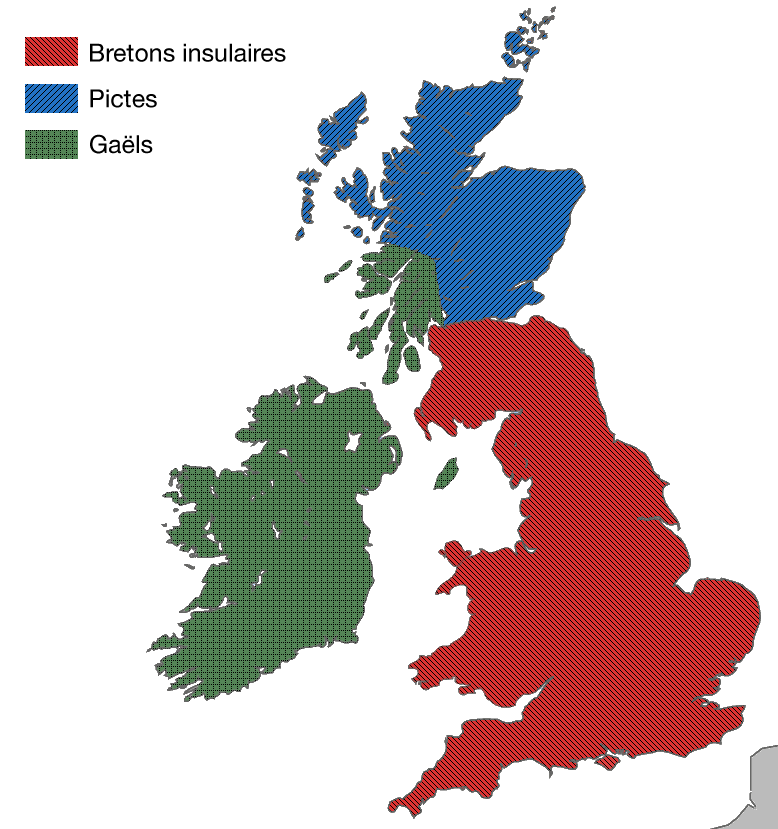 A map showing the approximate areas where the Gaelic (green), Brythonic (red) and Pictish (blue) languages were spoken around 450-500 CE.